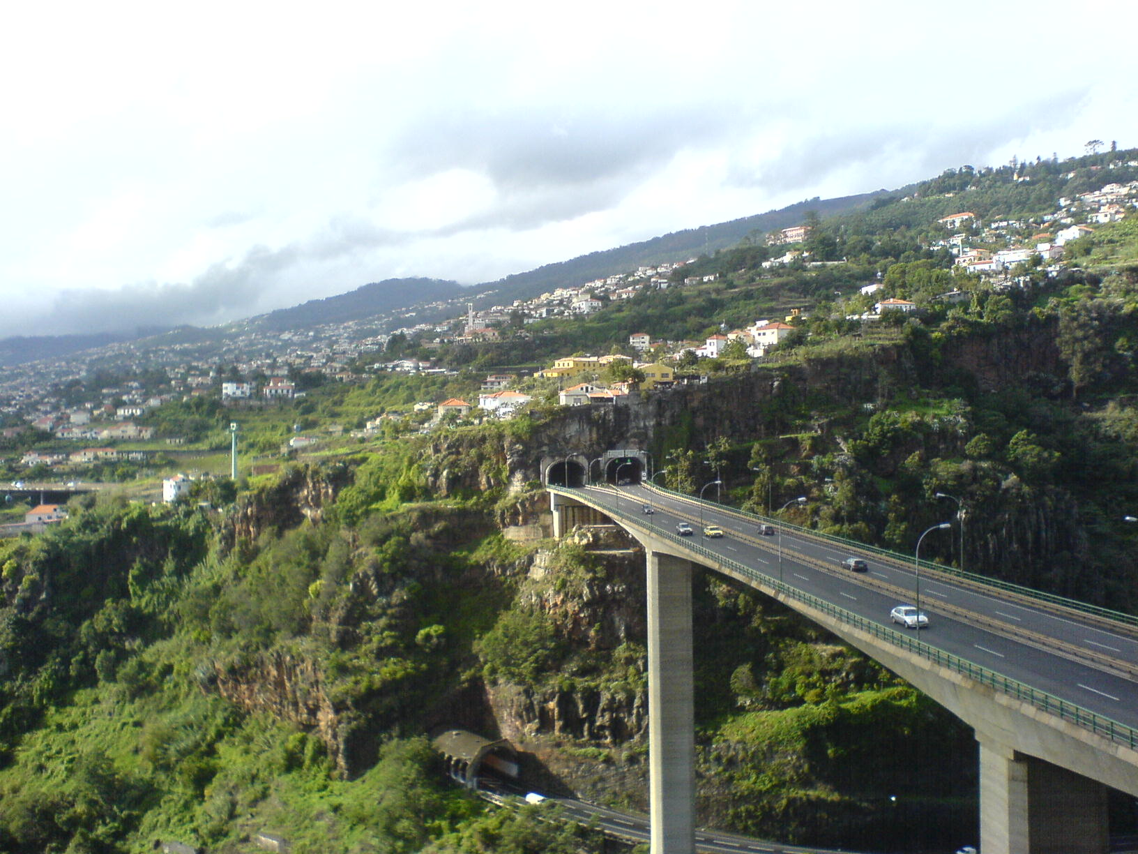 Autobahn bridge on Madeira near Funchal